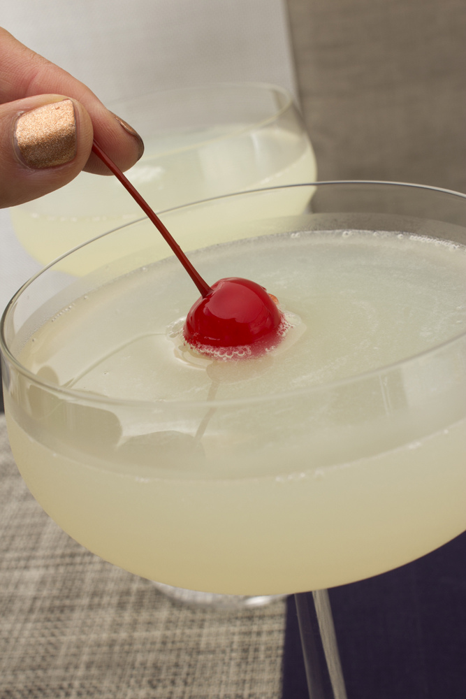 Placing a cherry in an aviation cocktail